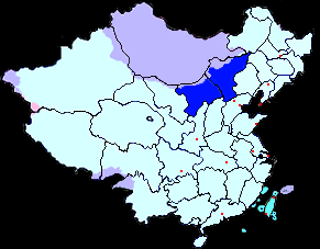 map to show the location of Mengjiang